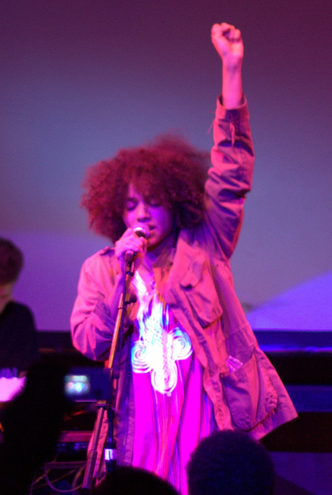 This image was originally posted to Flickr by .ledi at It was reviewed on 12:18, 28 July 2009 (UTC) by the FlickreviewR robot and confirmed to be licensed under the terms of the cc-by-2.0.